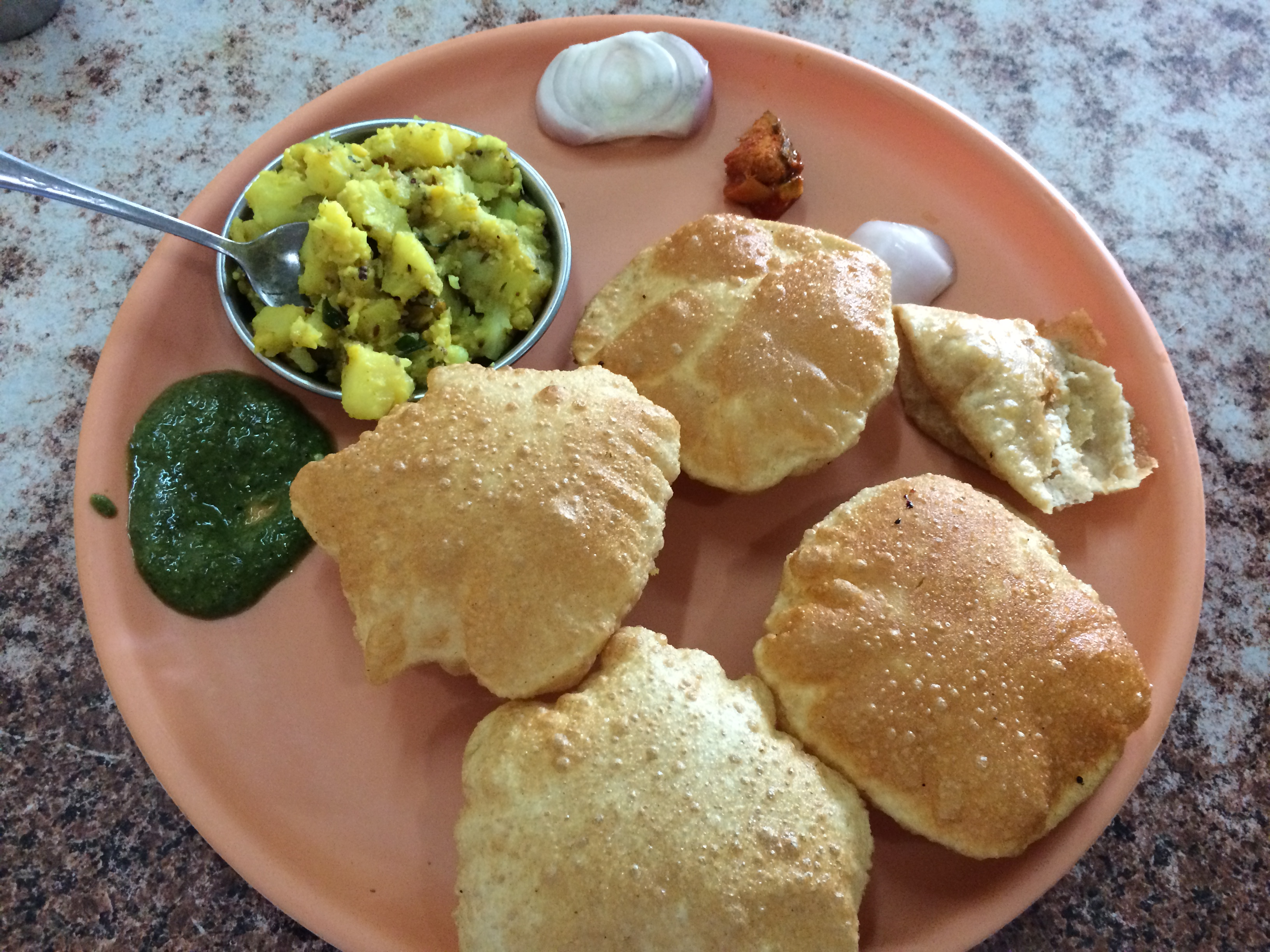 Puri Bhajji with Oniion, Pudina Chutney, Slice lime and pickle as served in Mumbai Restaurant